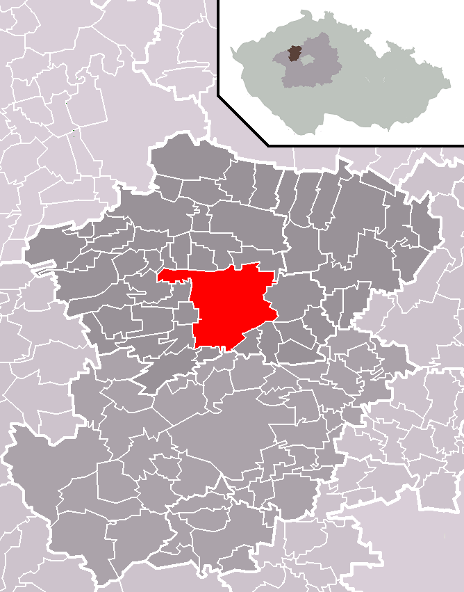 Location of Slaný town within Kladno District and administrative area of Slaný as a Municipality with Extended Competence.